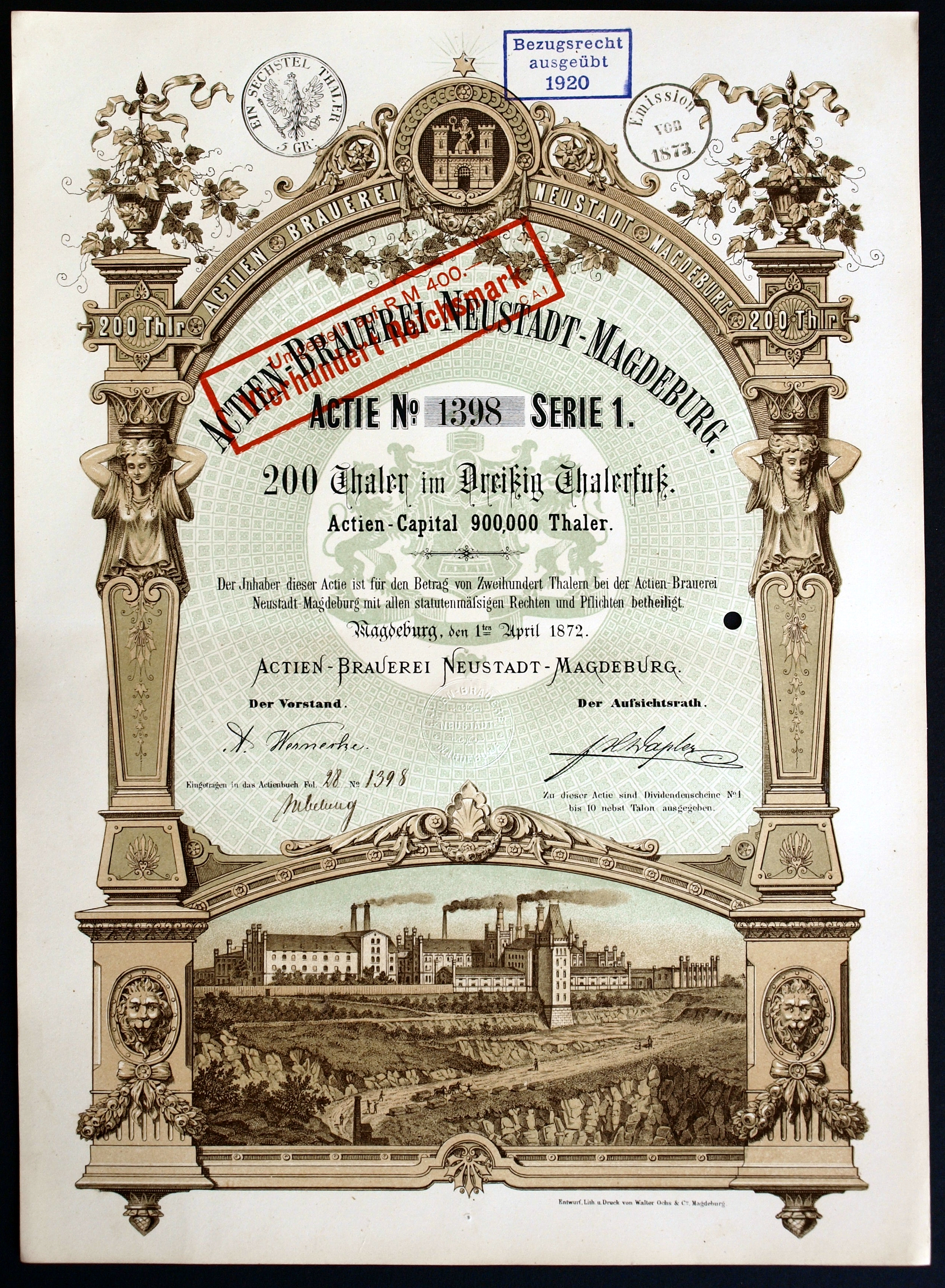 Share of the Actien-Brauerei Neustadt-Magdeburg, issued 1. April 1872